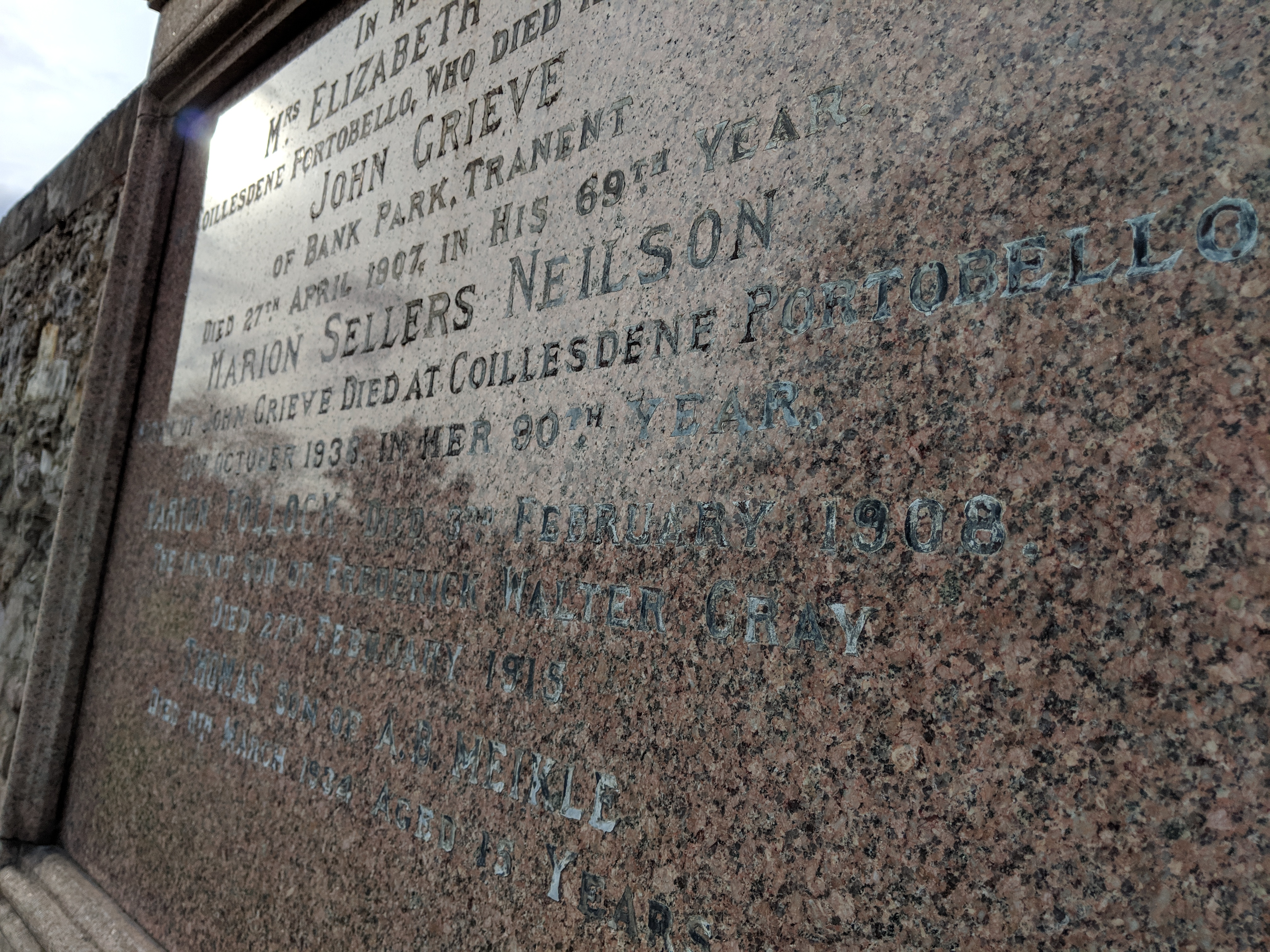 Marion Sellers Neilson Grieve Headstone, Portobello Cemetery